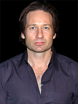 Ford and project7ten Sustainable/Green Home opening party David Duchovny (CALIFORNICATION, THE X FILES).